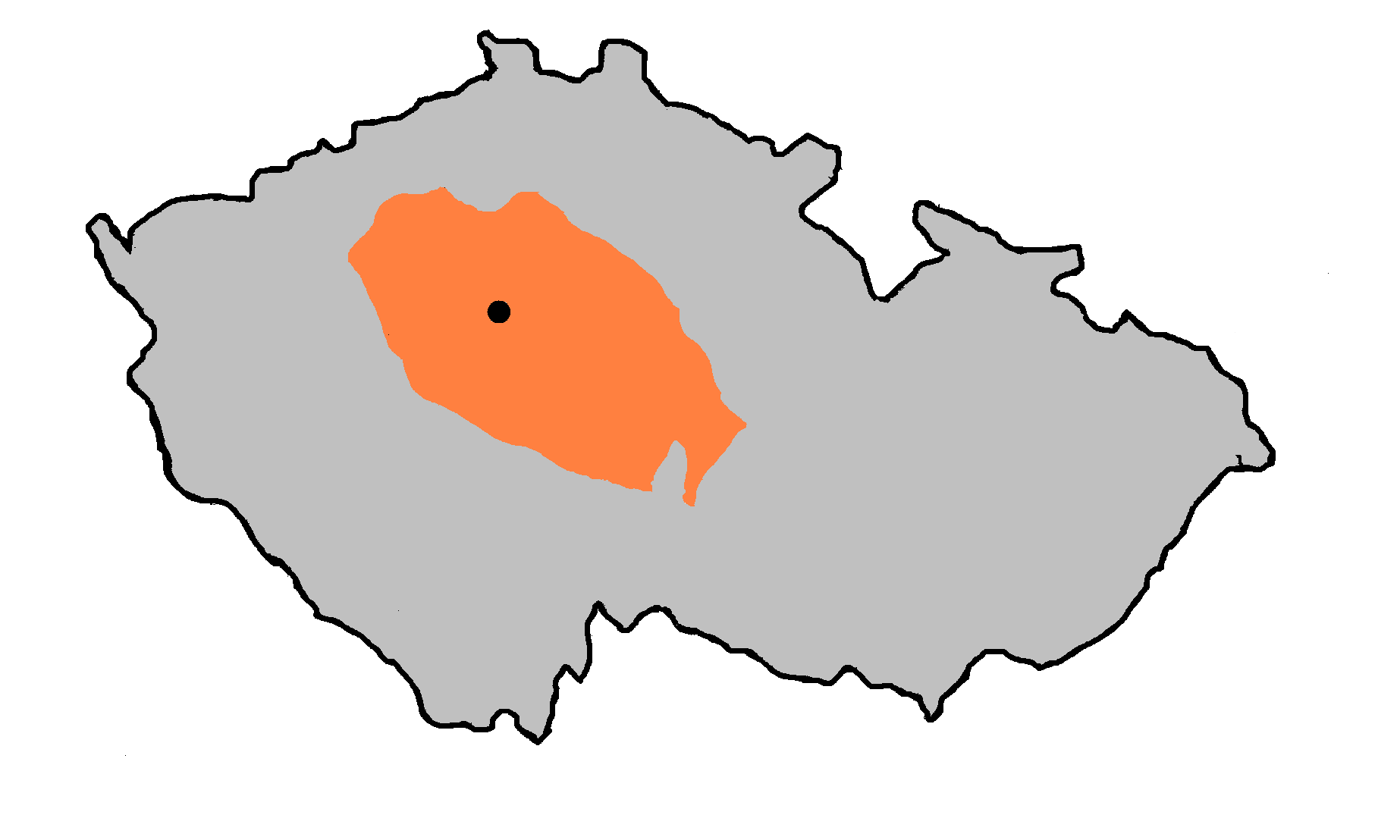 Zone, where is in using the Prague dialect.